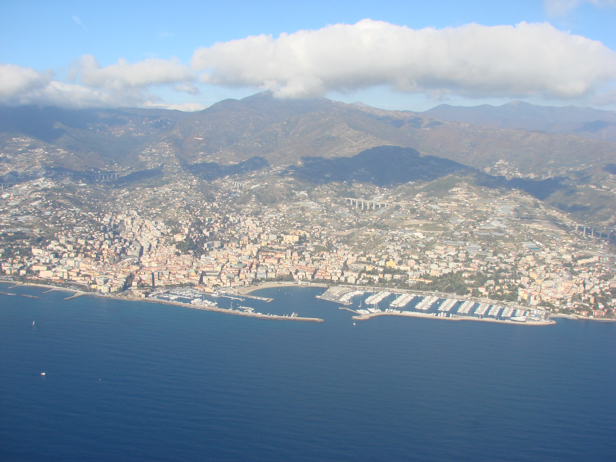 Aerial tour of the Cote d'Azur